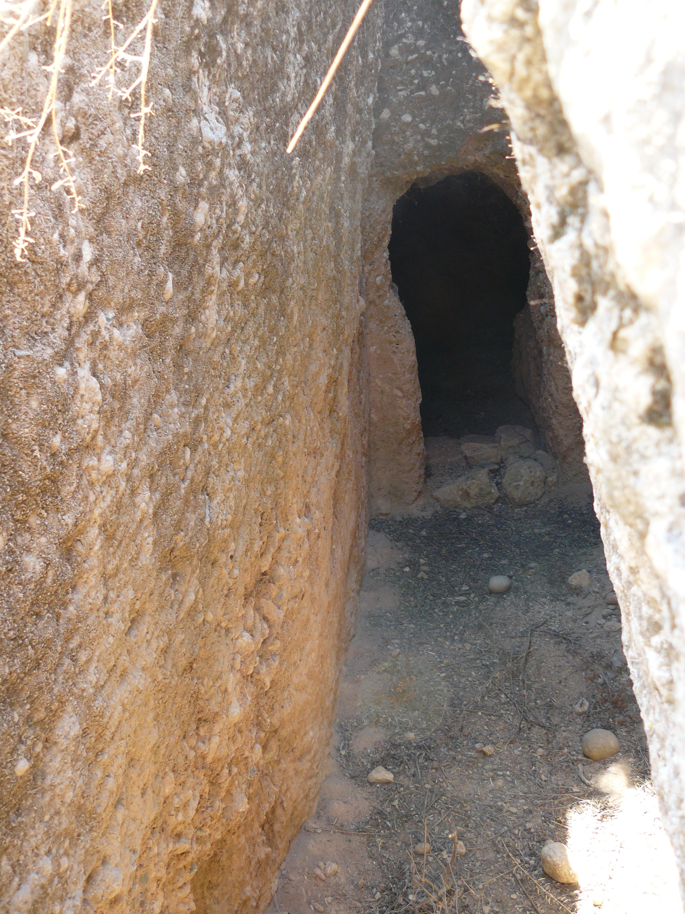 Mycenae: dromos of a shaft tomb. 70 m to the east of the tomb of the genii.